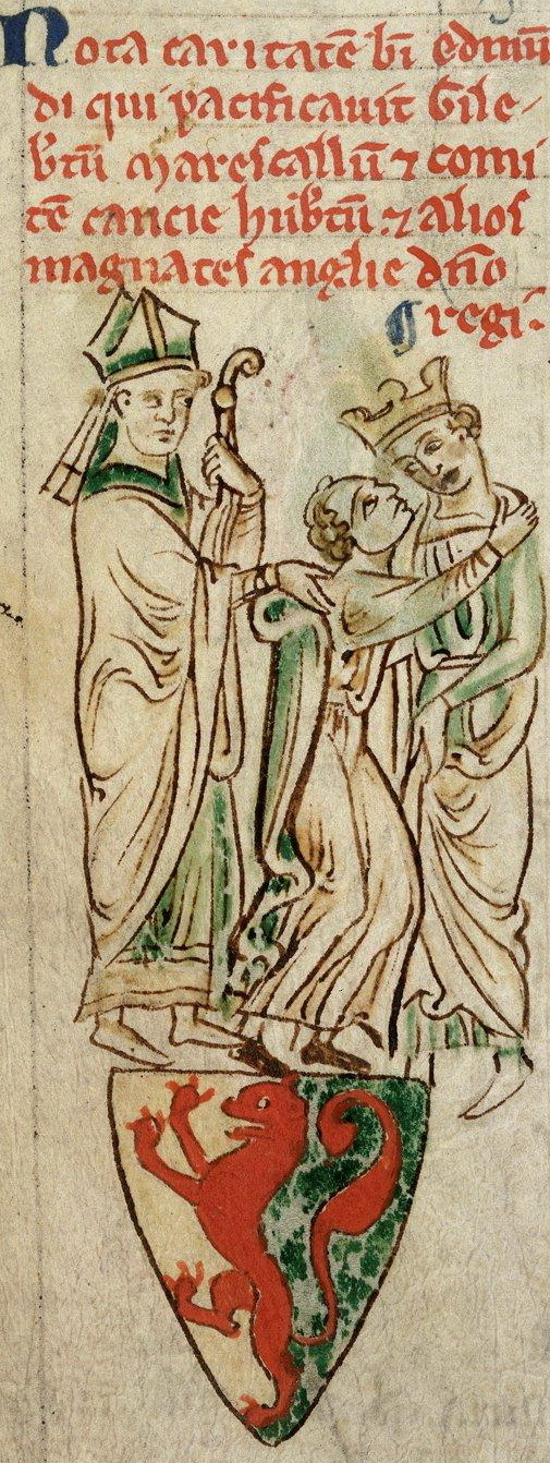 Edmund Rich, Archbishop of Canterbury, reconciling Gilbert Marshal, 4th Earl of Pembroke, and Henry III. British Library, Royal 14 C VII f. 122v